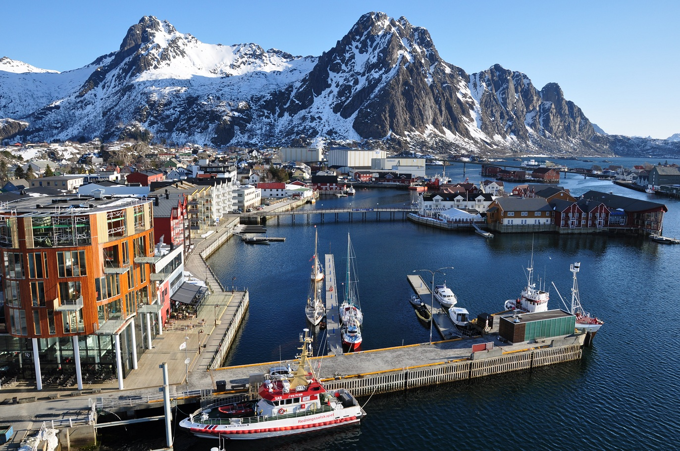 Svolvaer, Vågan Municipality, Austvågøy Island, Lofoten, Nordland County, Norway